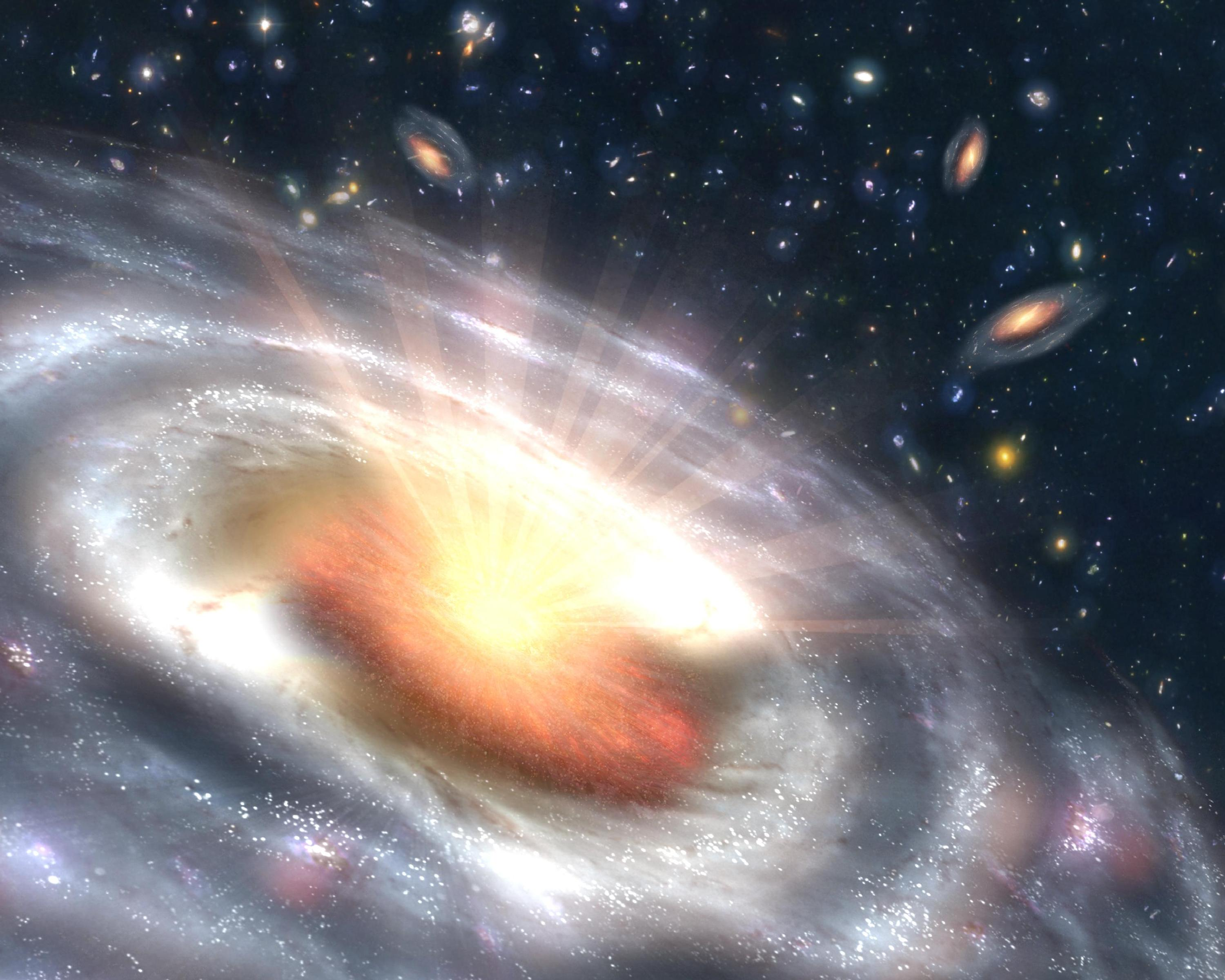 A growing black hole, called a quasar, can be seen at the center of a faraway galaxy in this artist's concept. Astronomers using NASA's Spitzer and Chandra space telescopes discovered swarms of similar quasars hiding in dusty galaxies in the distant universe. The quasar is the orange object at the center of the large, irregular-shaped galaxy. It consists of a dusty, doughnut-shaped cloud of gas and dust that feeds a central supermassive black hole. As the black hole feeds, the gas and dust heat up and spray out X-rays, as illustrated by the white rays. Beyond the quasar, stars can be seen forming in clumps throughout the galaxy. Other similar galaxies hosting quasars are visible in the background.